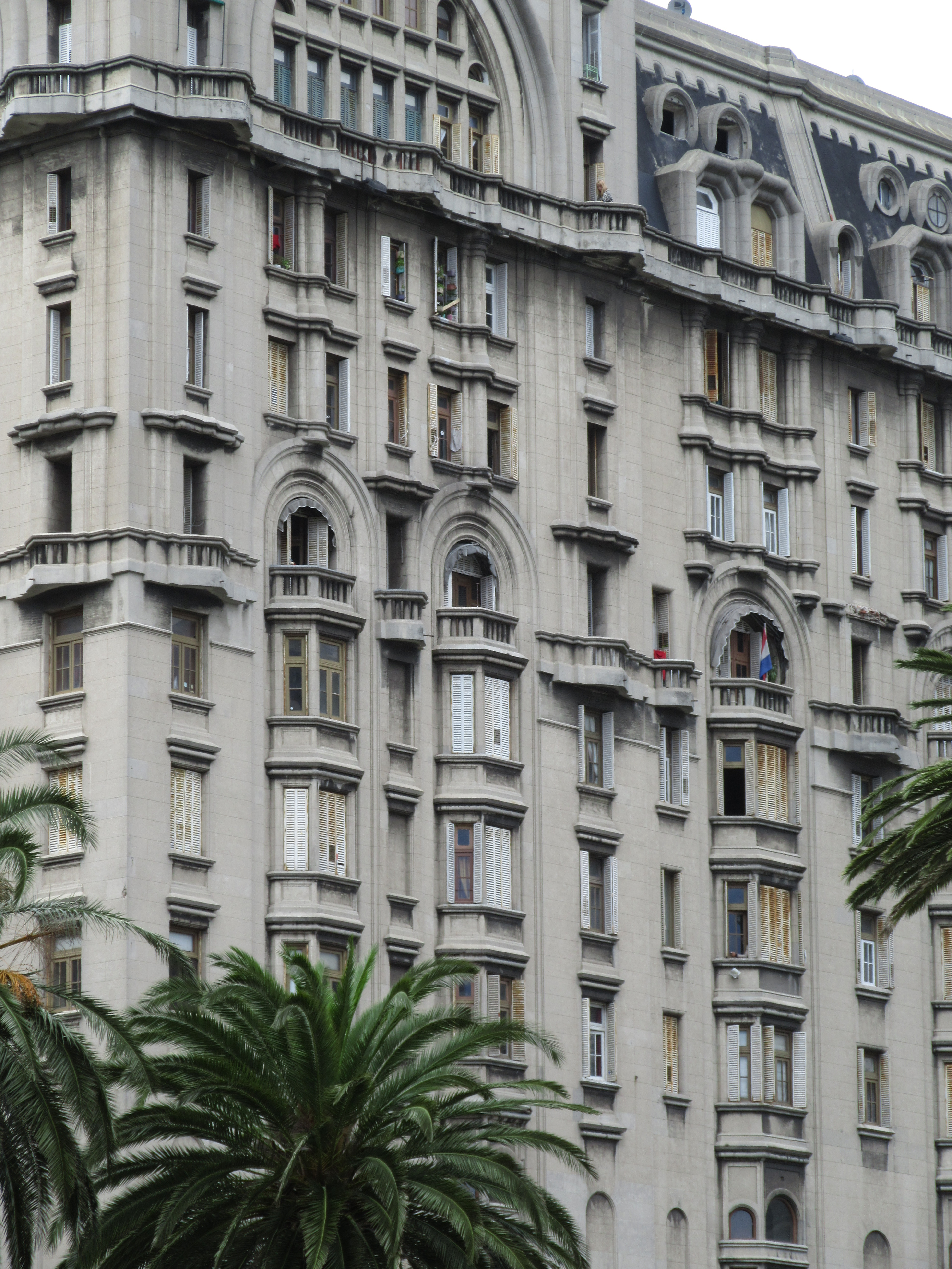 Montevideo